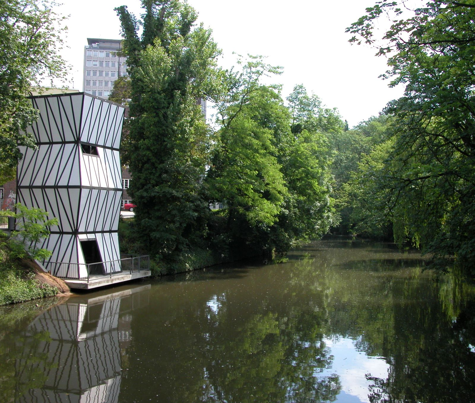 Brunswick, Germany: “ZIKZAK”, a work of art by Pedro Reyes, erected during the “braunschweig parcours 2004”.